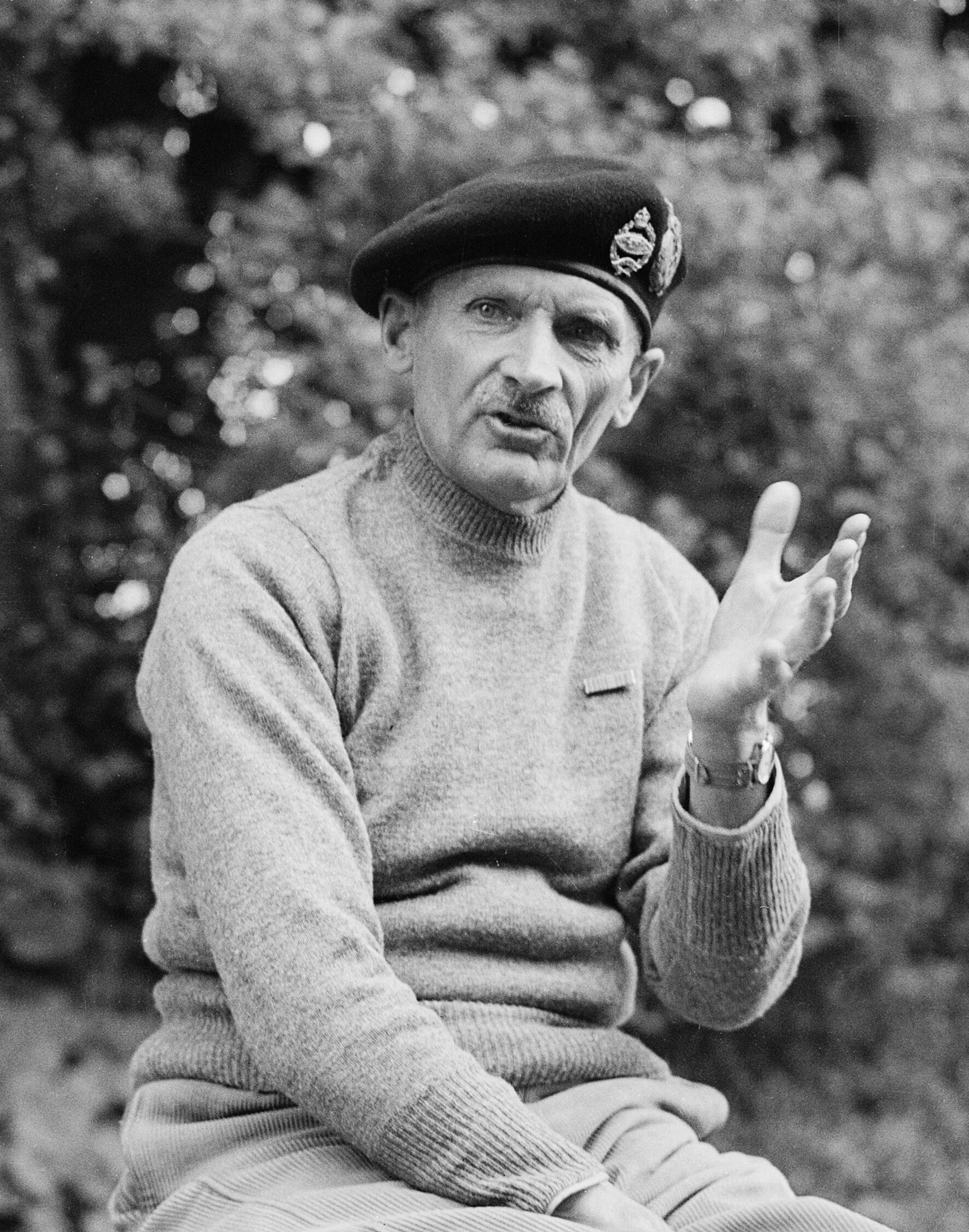 The Commander of 21st Army Group, General Sir Bernard Montgomery, during his first press conference for Allied war correspondents after the Allied invasion of Normandy, 11 June 1944. The Commanding Officers of 21st Army Group: Commander in Chief of the 21st Army Group, General Sir Bernard Montgomery KCB DSO during his first press conference for Allied correspondents following the Allied Landings.